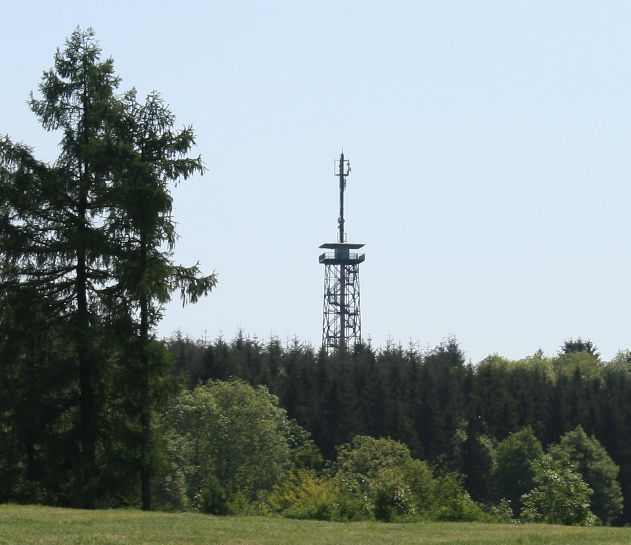 Weidenhahn Lookout Tower on Helleberg mountain in Westerwald, Rhineland-Palatinate, Germany